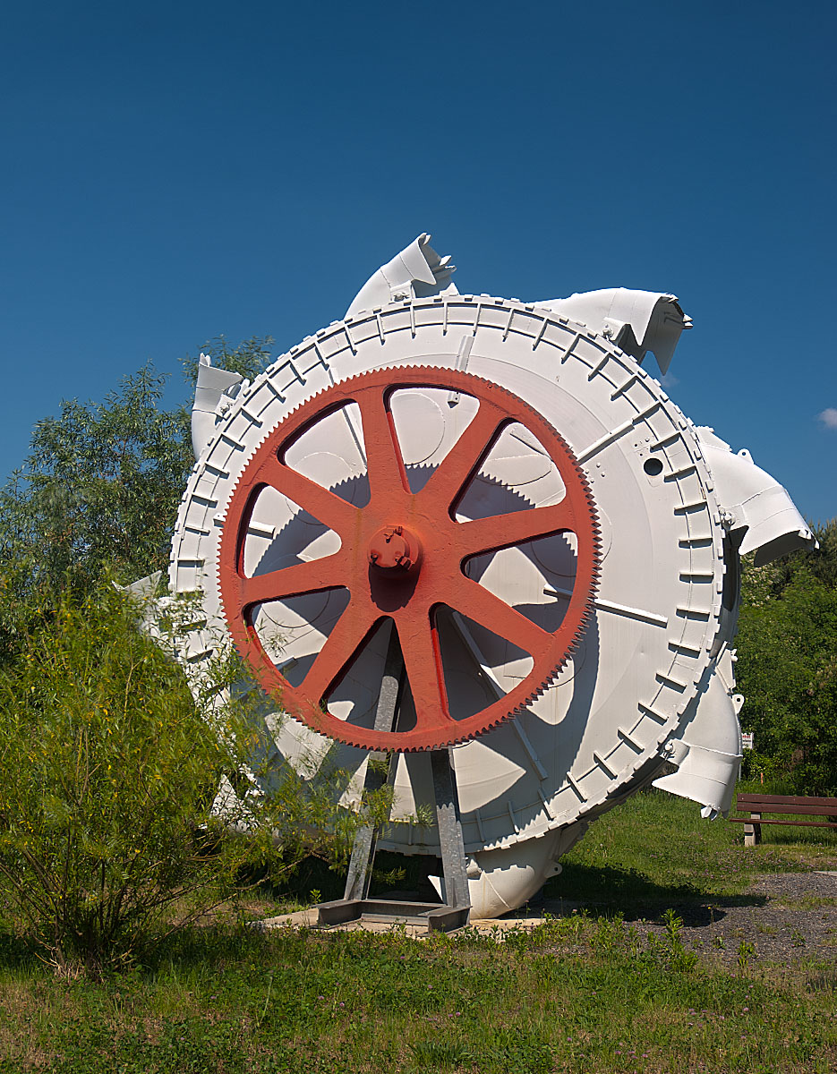 Bucket wheel in Klettwitz, Brandenburg, Germany